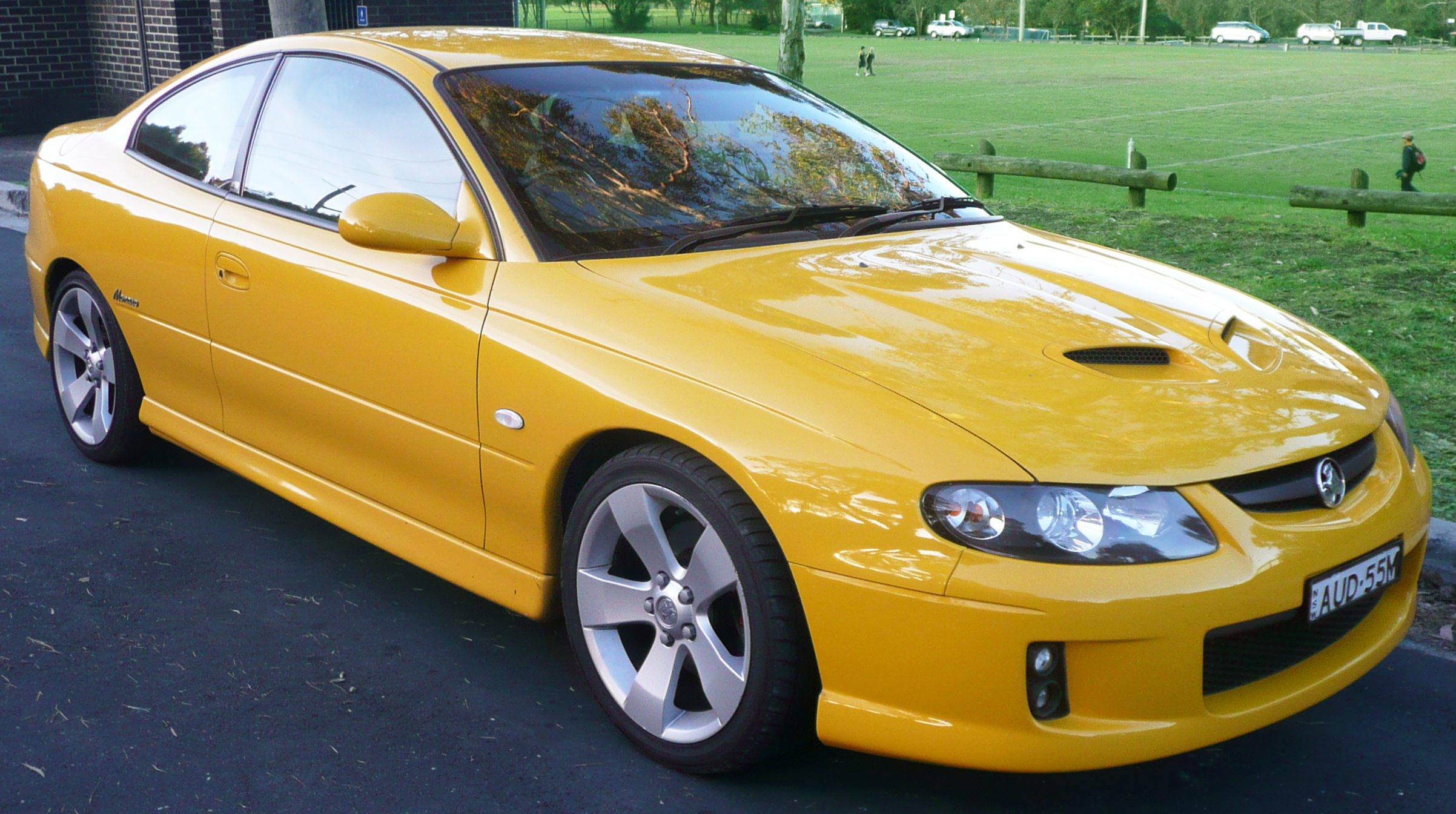 2004–2005 Holden VZ Monaro CV8 coupe. Photographed in Sutherland, New South Wales, Australia.